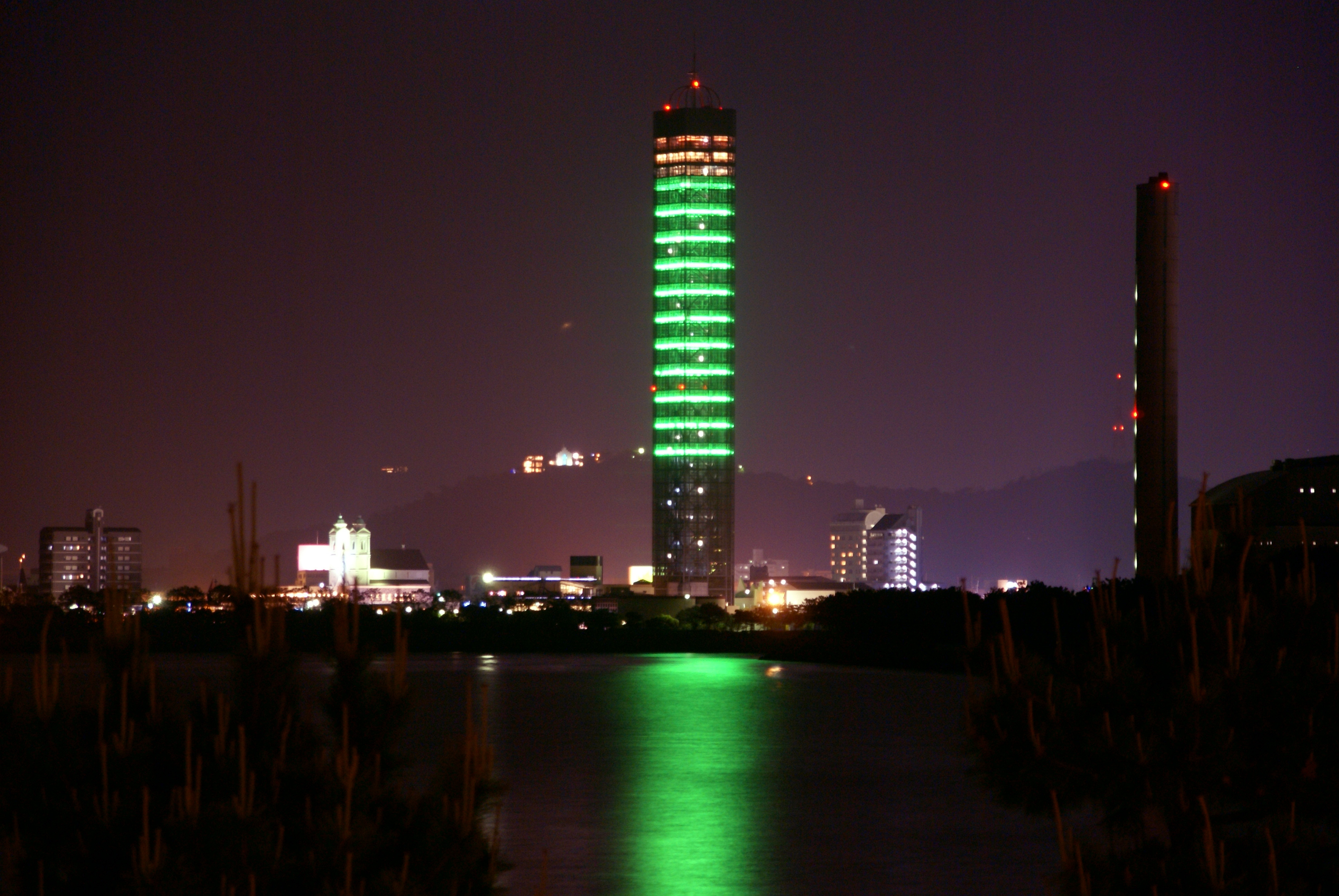 Gold Tower in Utazu, Kagawa prefecture, Japan